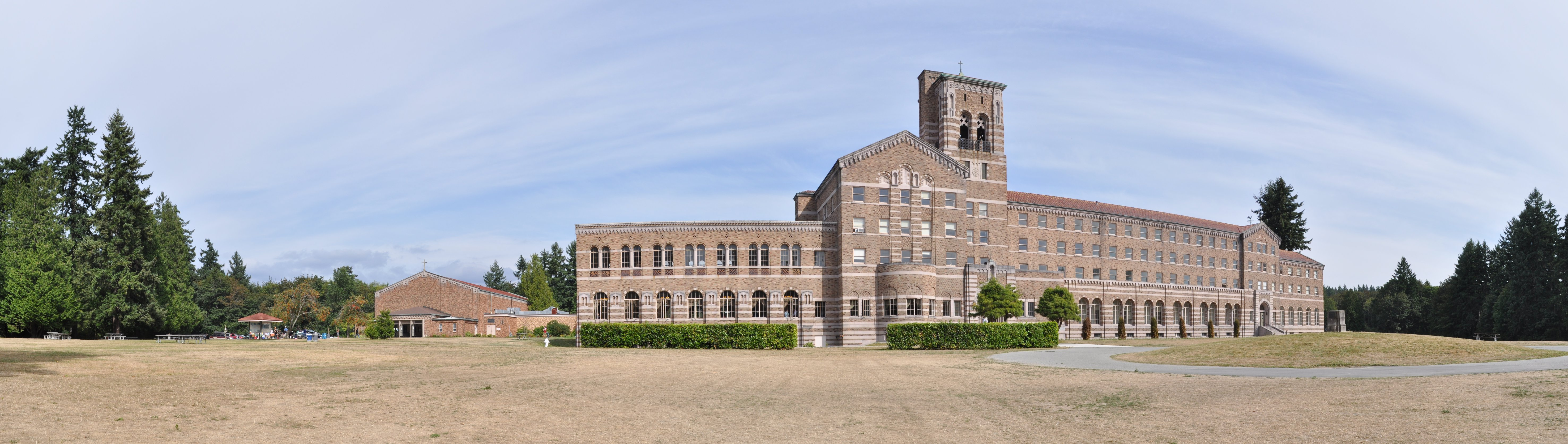 Former Saint Edward Seminary, Saint Edward State Park, Kenmore, Washington. This image was created with Hugin